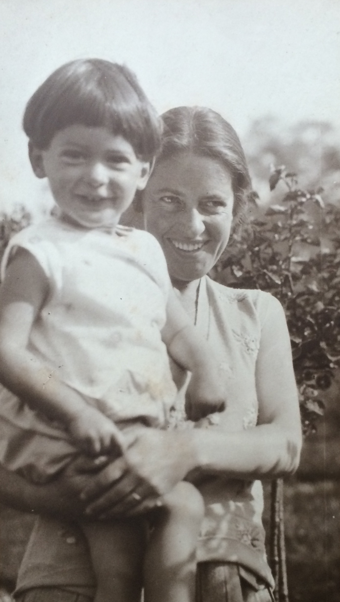 Taken by C.A.Lejeune's husband Edward Roffe Thompson, probably in the garden of their home in Pinner, North London.